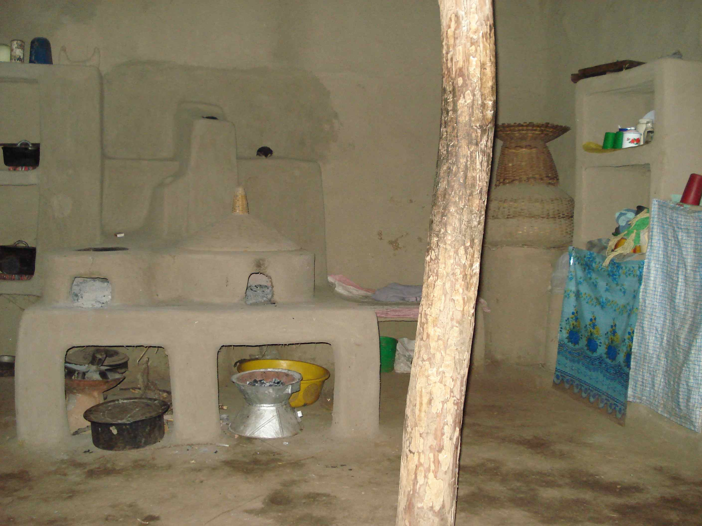 Stove and furniture common to the Awra Amba community, Ethiopia